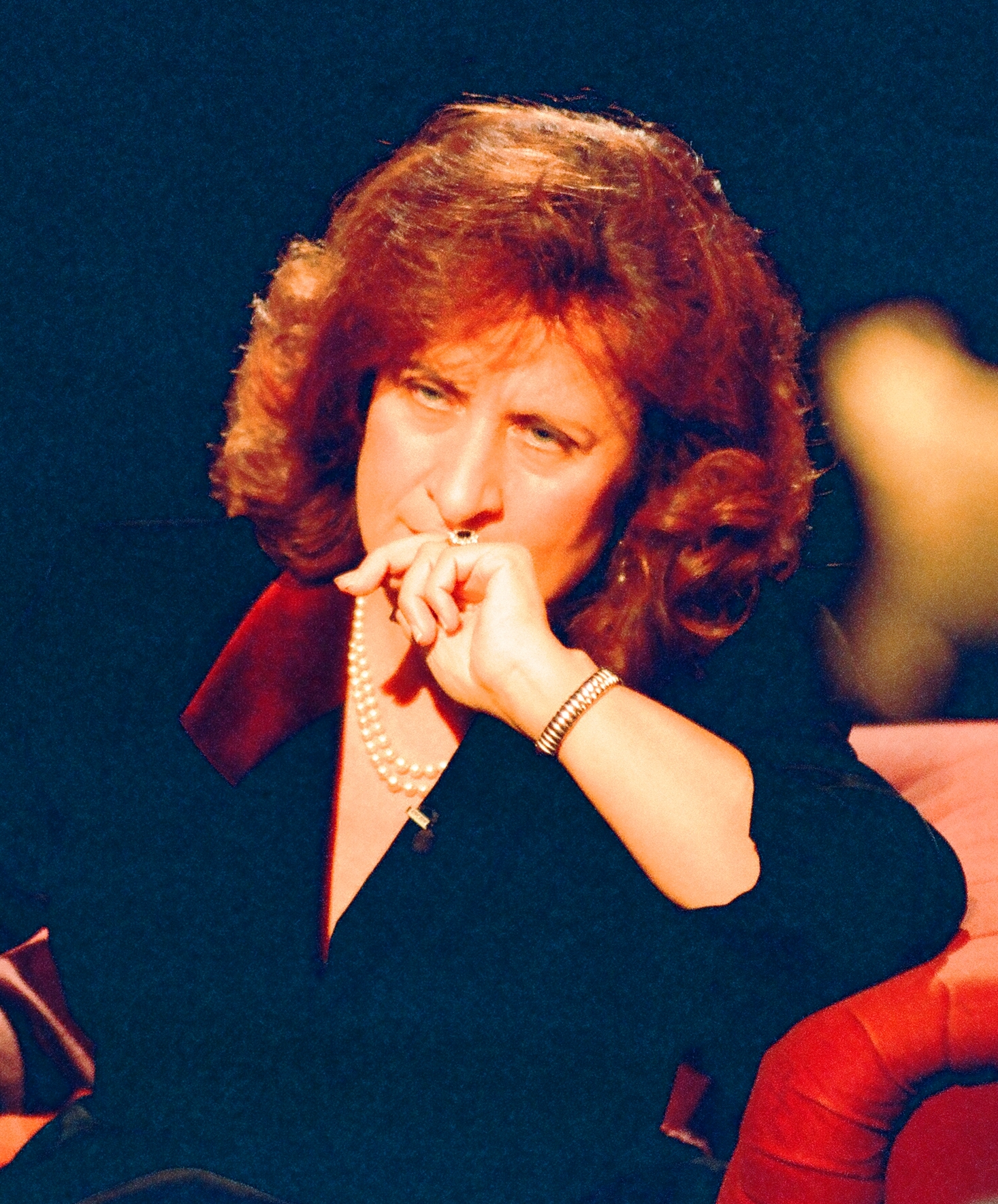 Helena Kennedy hosting After Dark on 13 September 1997